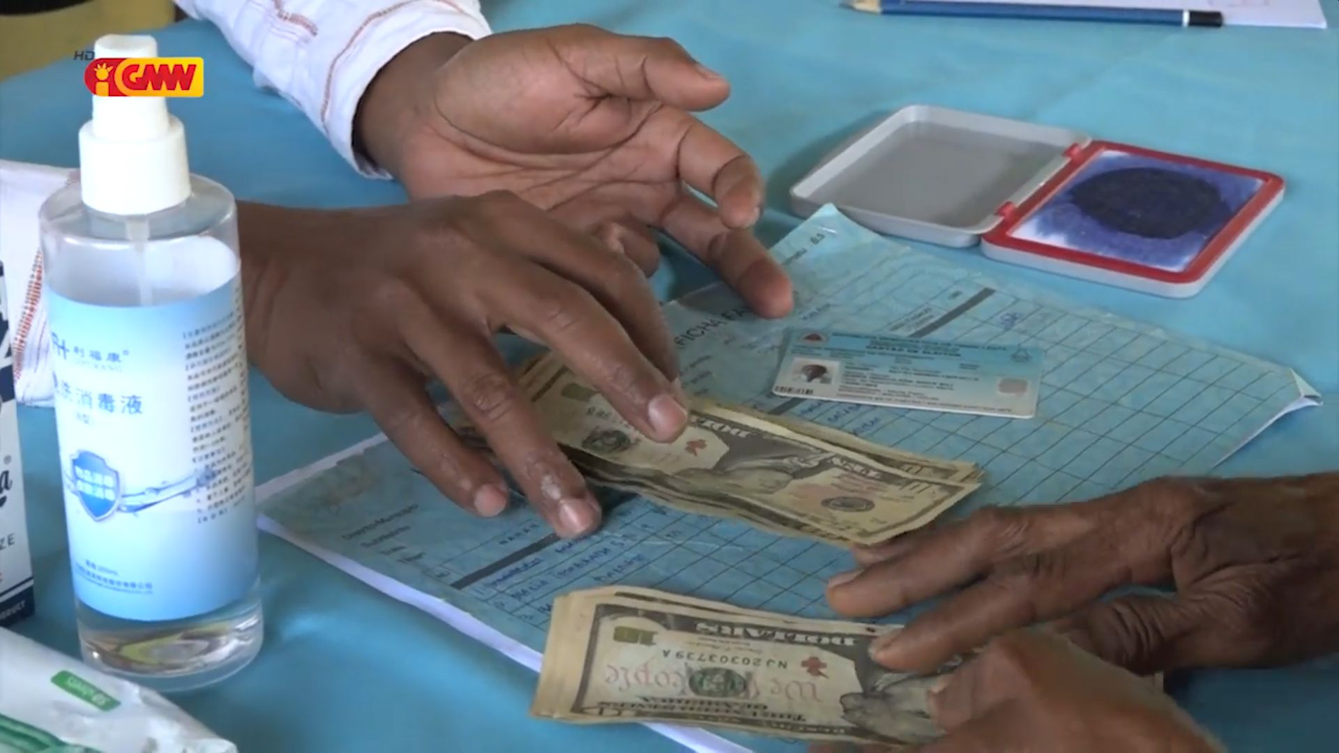 Paying out Covid-19-aid by government in Suco Holsa